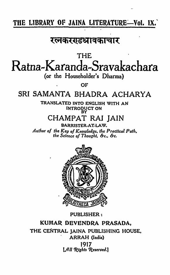 Cover page of the book "The Ratna Karanda Sravakachara" (1917) Author: Champat Rai Jain